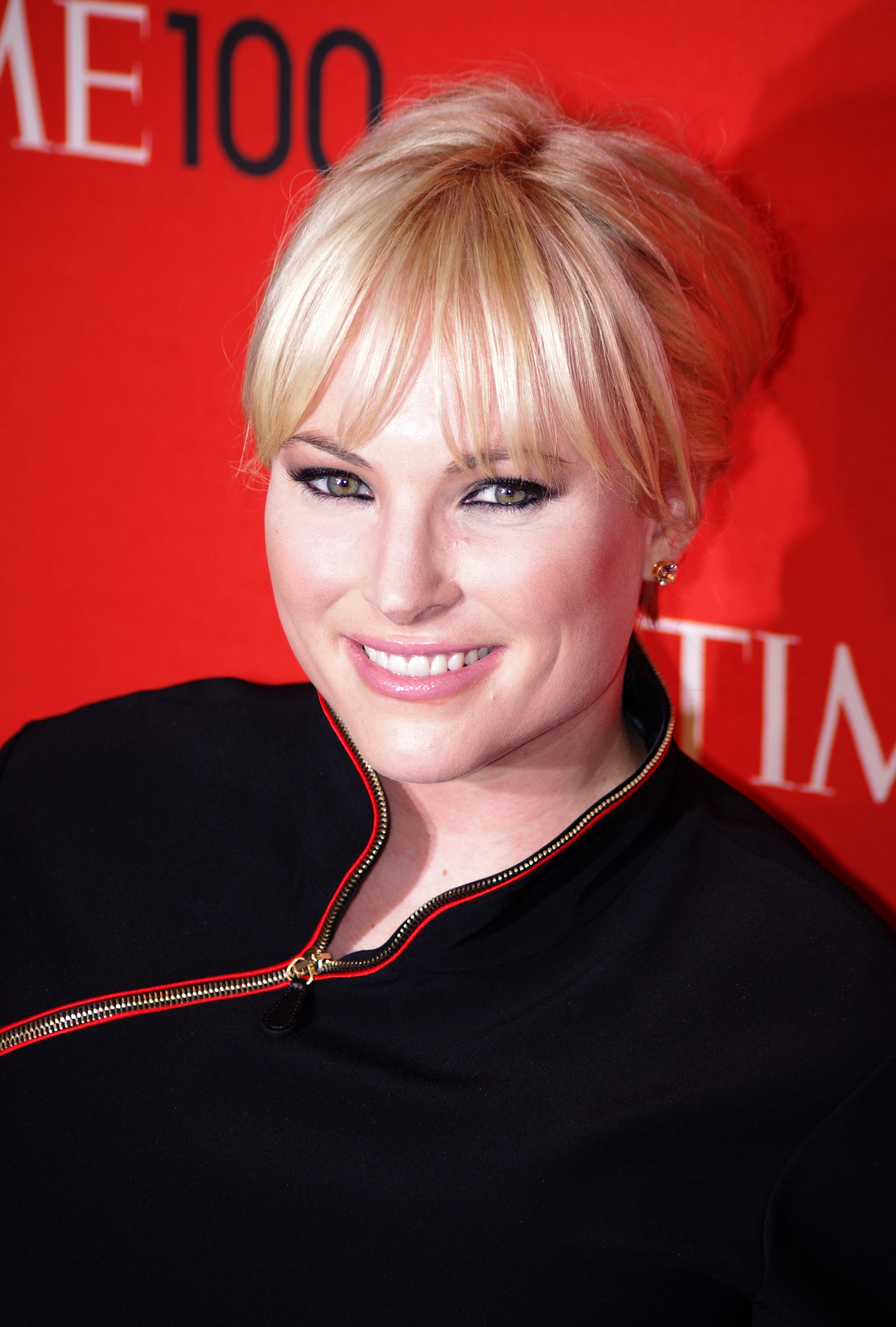 Meghan McCain at the 2011 Time 100 gala.